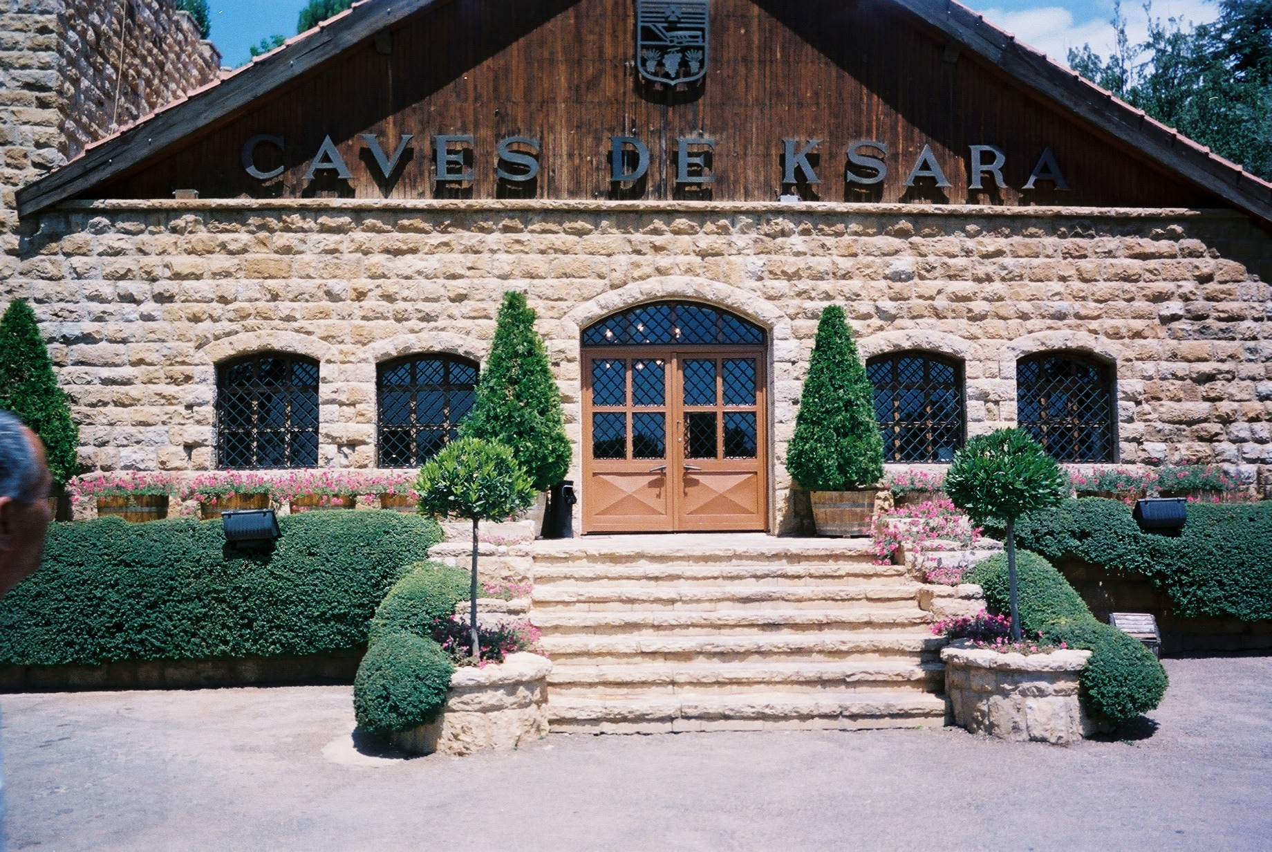 My own work. The wine making headquarters of Chateau Ksara in Bekaa, Lebanon.